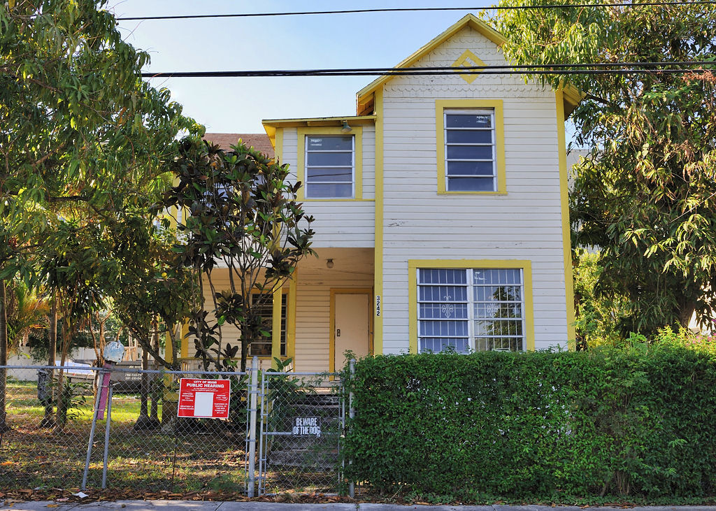 Stirrup House - Miami A sample of conch house architecture.